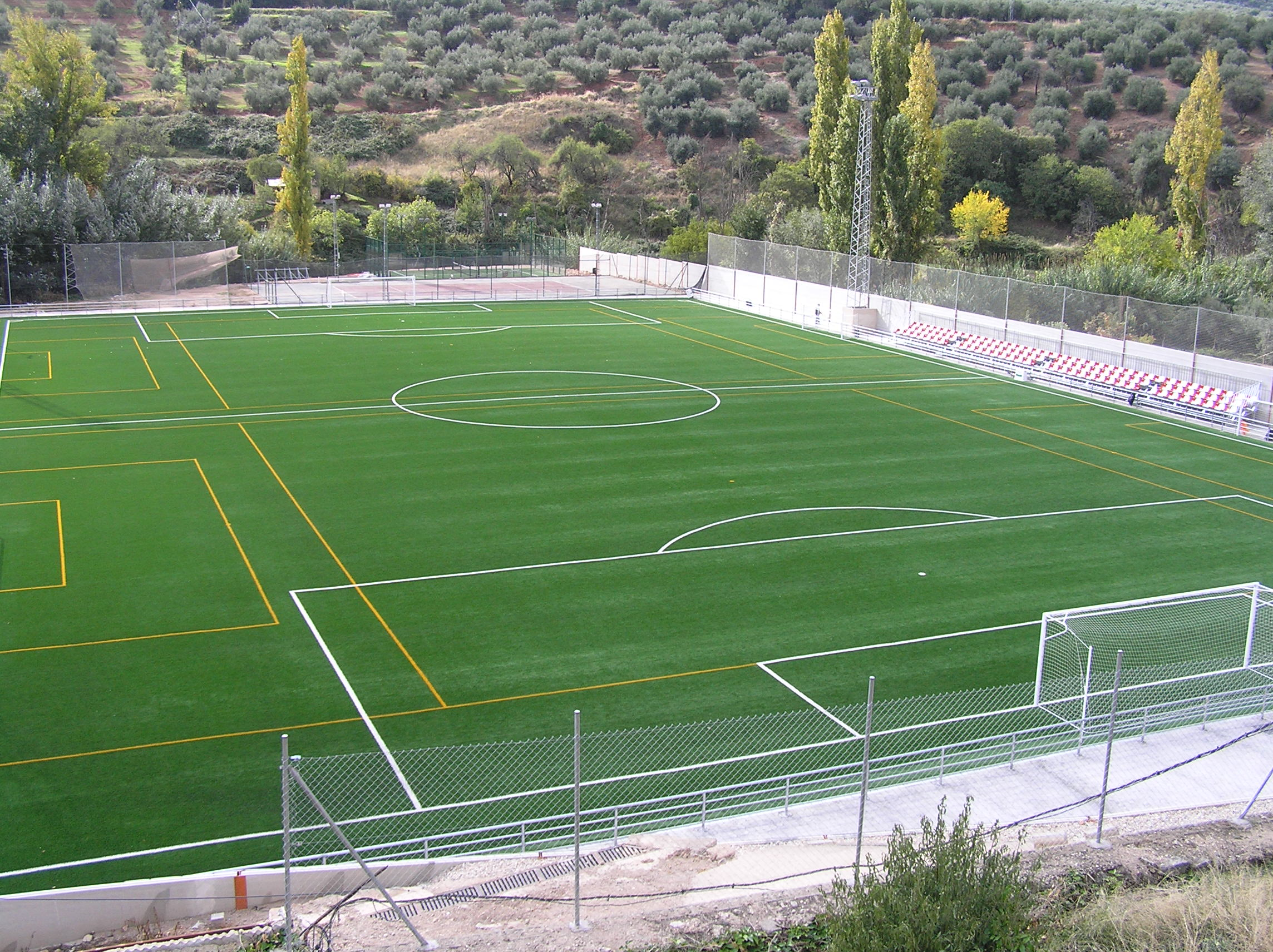 Campo de Fútbol "Nuevo Hondonero"